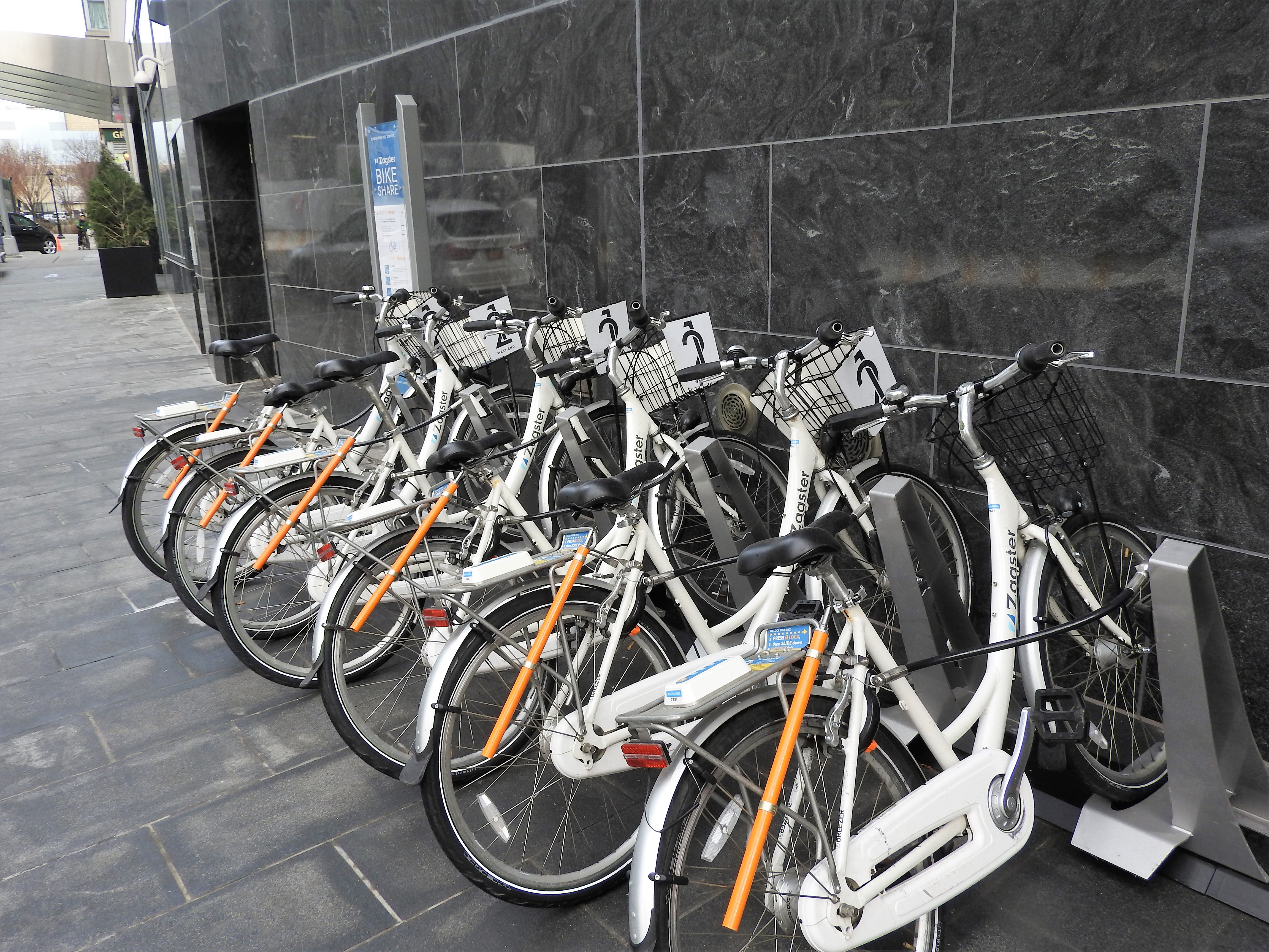 Looking northeast at bike station